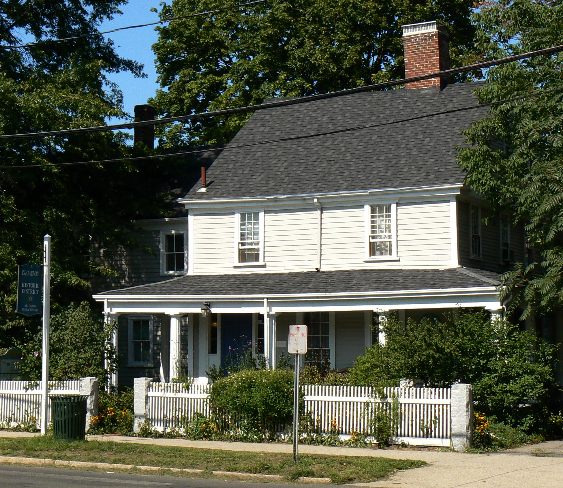 A picture of the historic property known as the Wayside Inn at 393 Mass Ave., Arlington, MA. It is not to be confused with the more famous Wayside Inn in Sudbury.